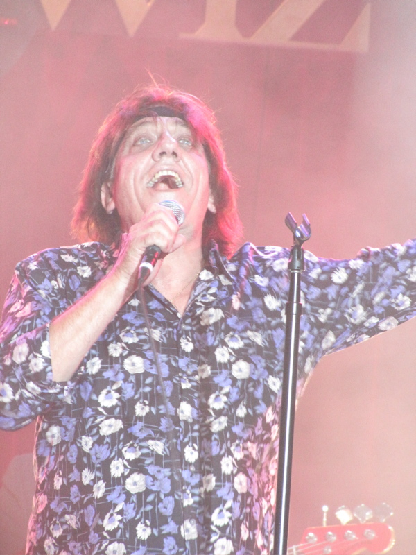 Jon English